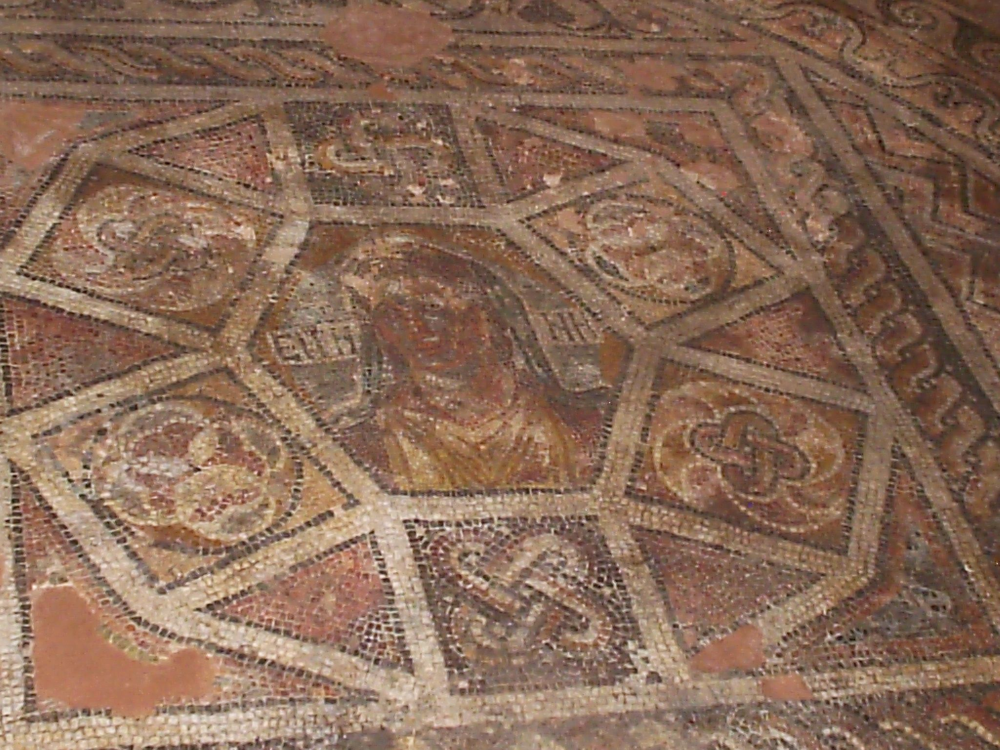 Mosaics in Eirene mansion in Plovdiv